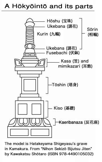 Diagram of a hokyointo and its parts. This file is a translation of file Ehoukyouintou-wiki.jpg. Tried to use the tool for derivative works, but it couldn't detect the public domain license, which is present.